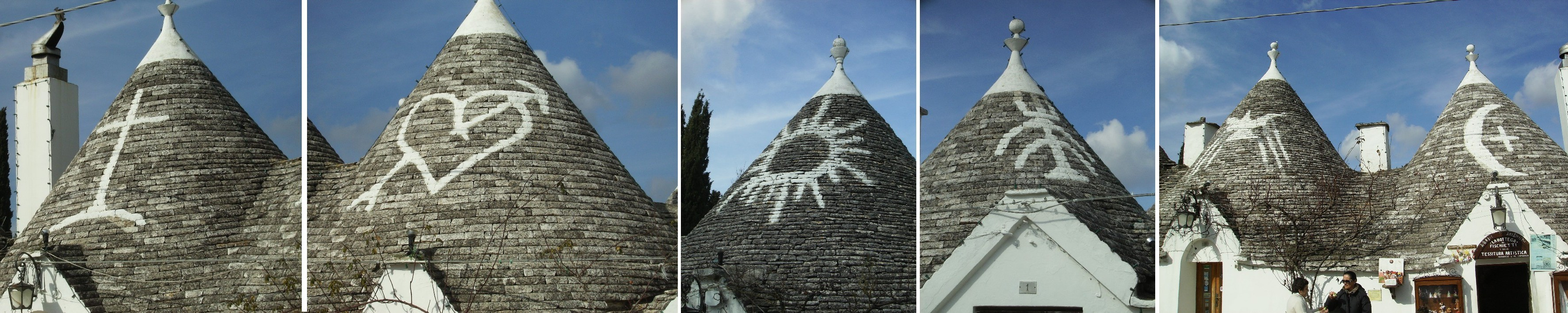 Trulli strung along via Monte Pertica in Alberobello, province of Bari, Italy. The whitewashed symbols were added following the restoration of the stone roofs in the 1980s and 1990s.